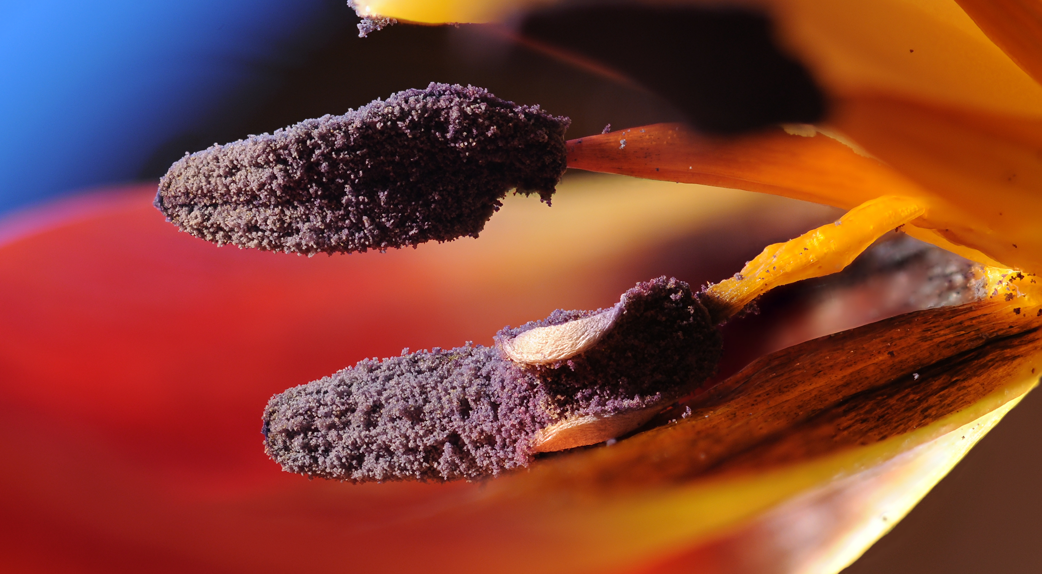 This photograph was taken with a Nikon D300 This image was created with CombineZP ( It was created out of 24 single images.). Étamines d'une tulipe (tulipa sp.) (focus stacking). Image composée de 24 photos assemblées avec CombineZP.